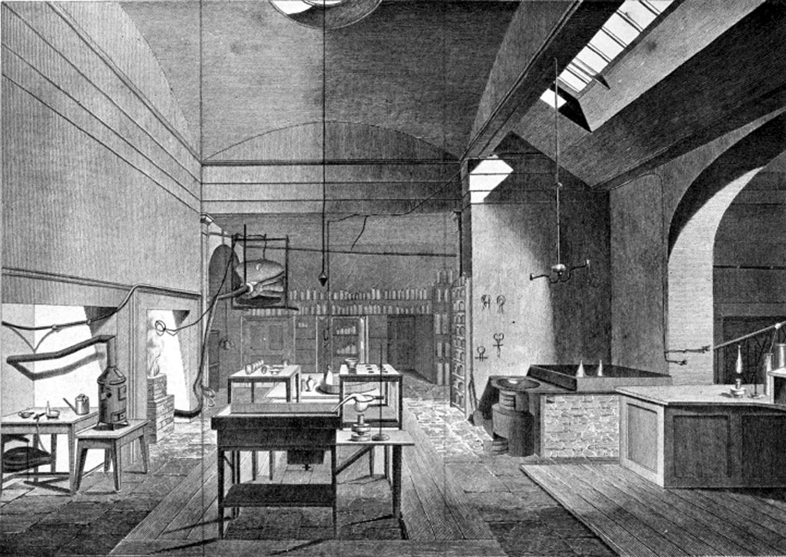 Laboratory at the Royal_Institution (1819)